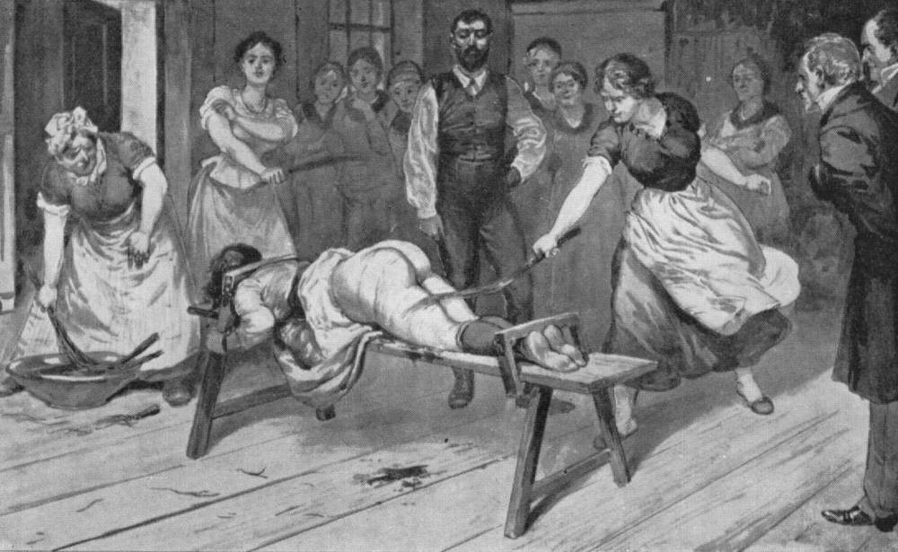 Image of S/M sexuality